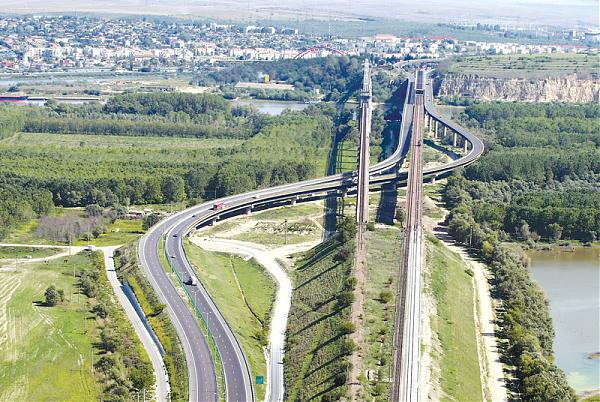 Anghel Saligny Bridge (left) and Cernavoda Bridge (right) over Danube